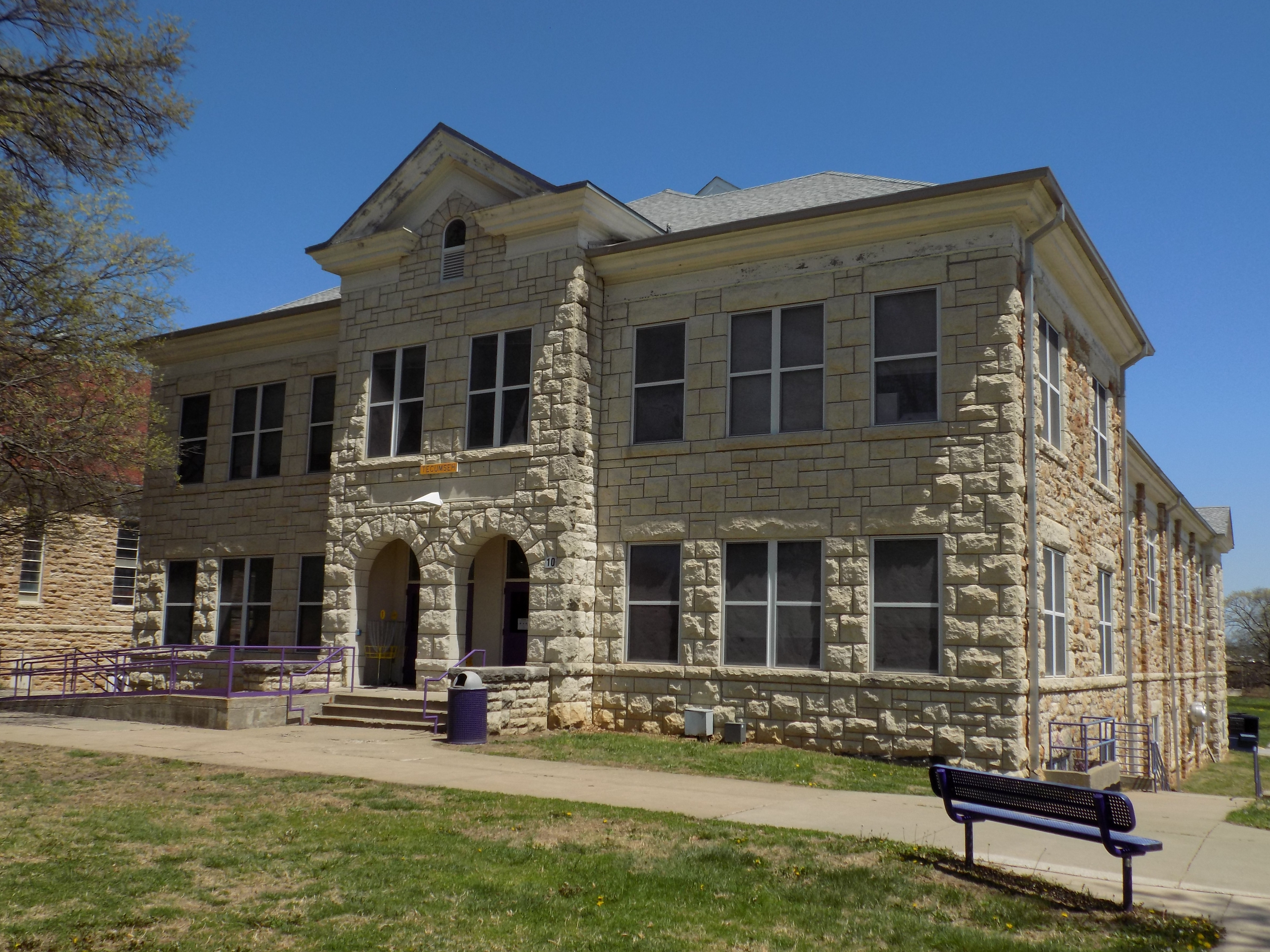 Tecumseh Hall, built in 1915. Served initially as a gym; now houses the offices of the Student Activities, Alumni, and Indian Leader, according to the school.